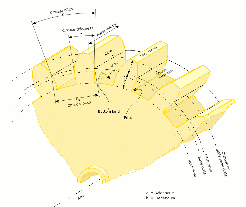 Gear with terminology.